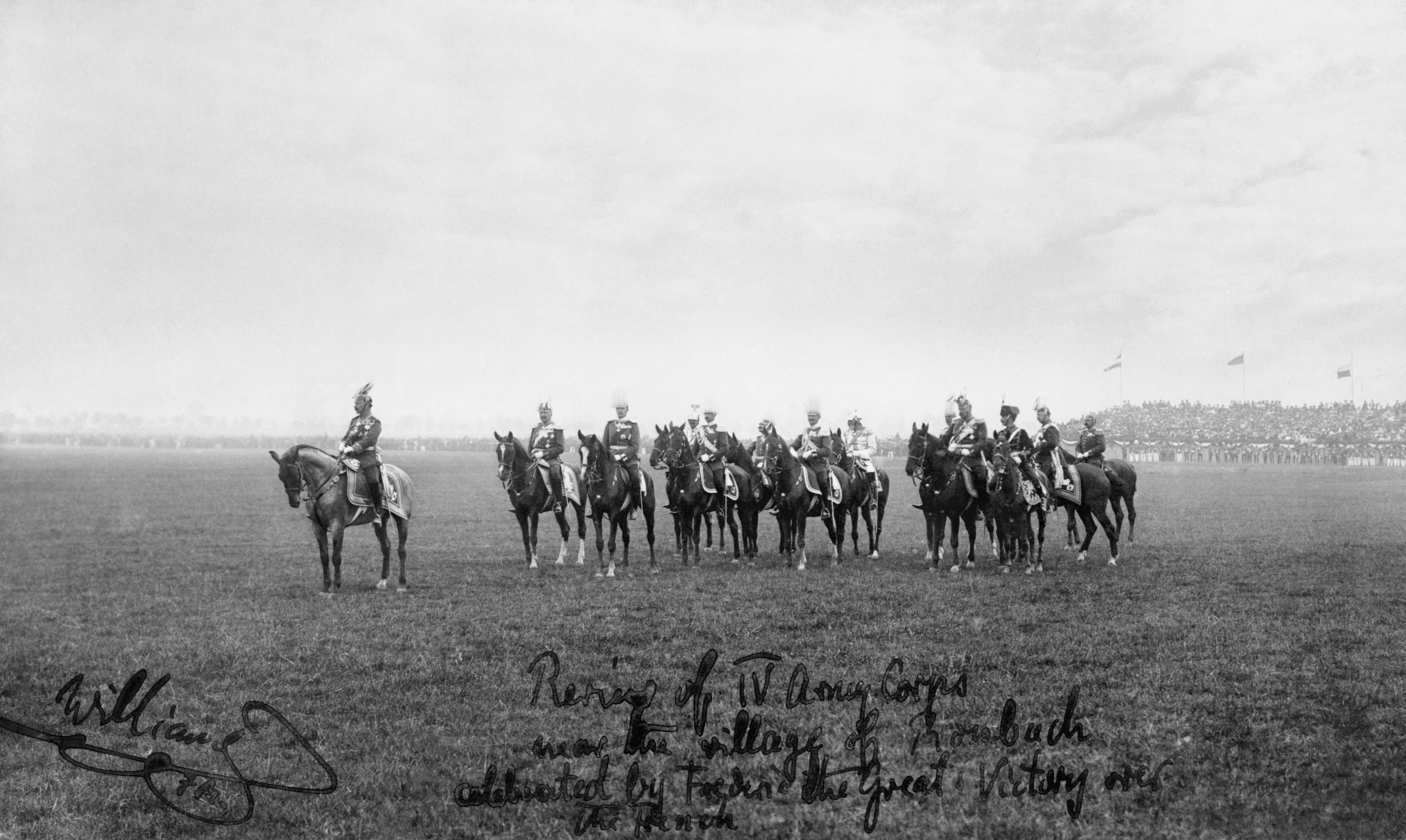 The Imperial German Army 1890 - 1913 The Kaiser and staff review the IV Army Corps during the manoeuvres of 1903. The Kaiser has annotated the print as follows: "Review of IV Army Corps near the village of Rossbach celebrated by Frederic [sic] the Great's Victory over the French".